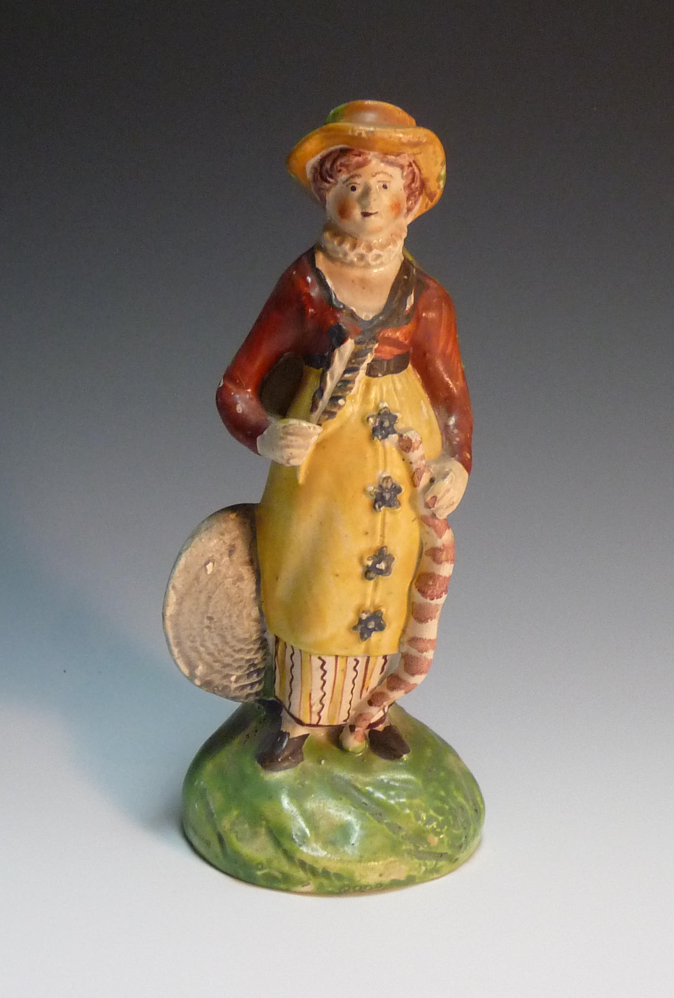 Staffordshire pottery figure of an archer circa 1825